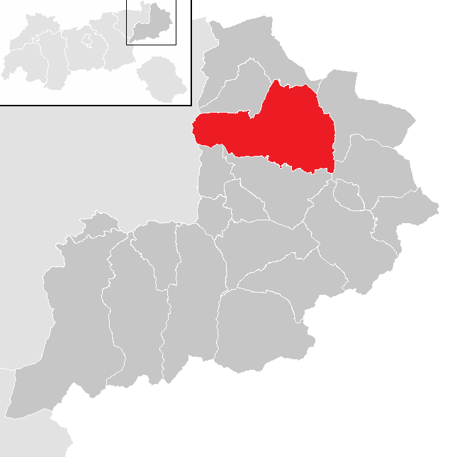 District Kitzbühel